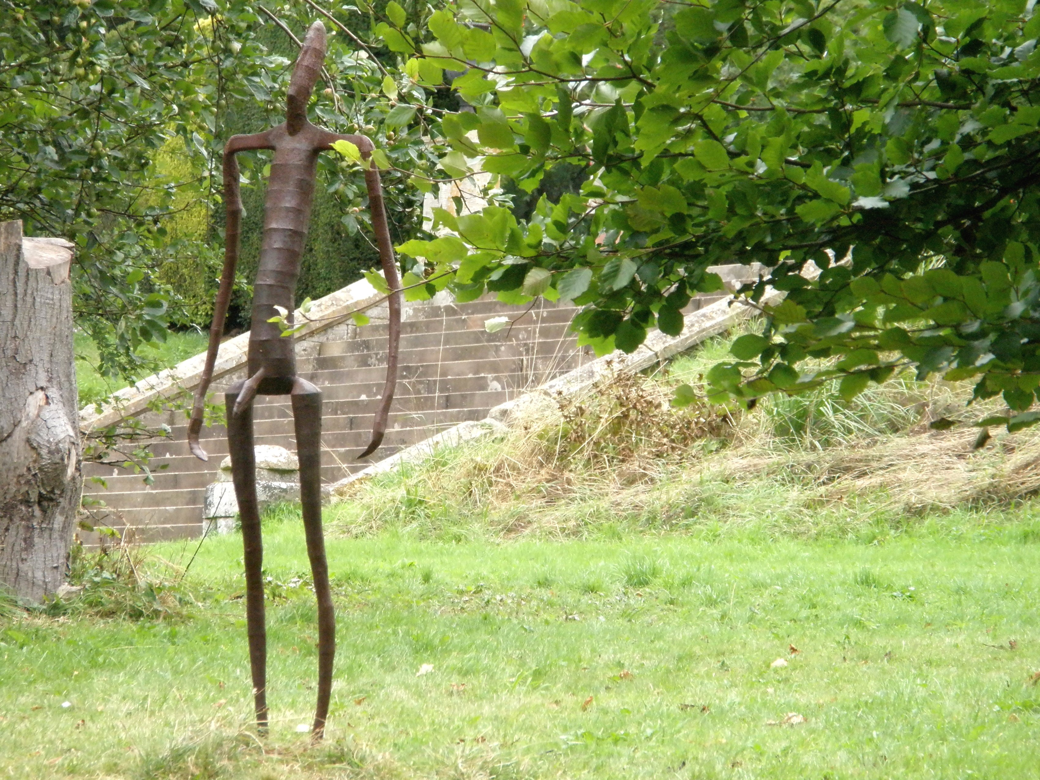 Jerwood Sculpture collection. Ragley Hall. Warwickshire. 1998 Iron 1.86 m high. Insider VIII is one in a series of fourteen works made between 1996 and 1999 in which Antony Gormley experimented with using a mathematical process to reduce body mass by two thirds to reveal an inner core. His "Insiders" carry in concentrated form, the trace of the body and it's passage through life. The material used for these works is iron, the base element found at the earth's core, and the artist has likened his "Insiders" to being cooled and revealed magnetic lead cores of the body. I couldn't help comparing him with his Aussie cousin out there on Lake Ballard "Inside Australia" Lake Ballard WA